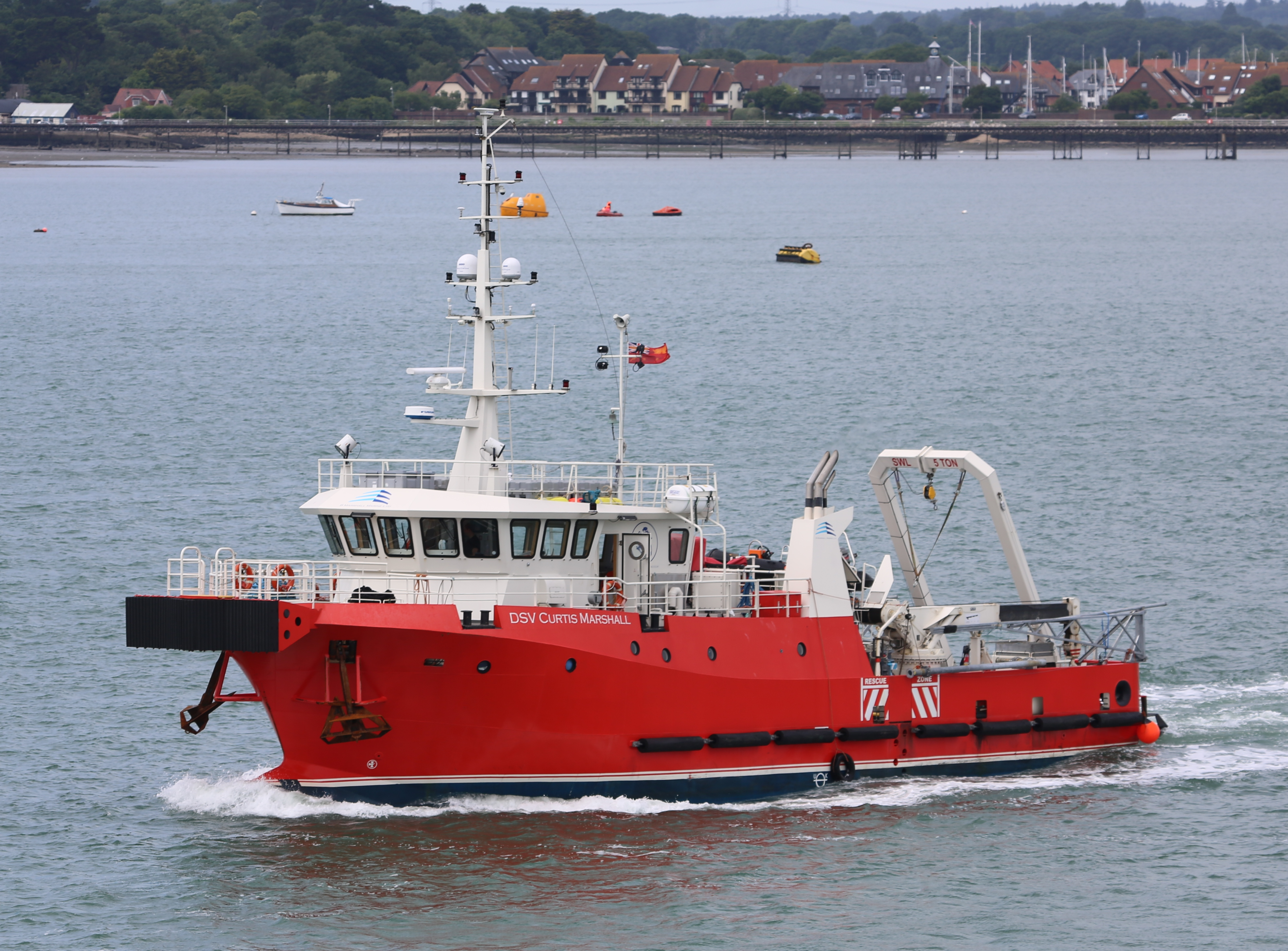 Photo of diving support vessel DSV Curtis Marshall IMO Number:9775012